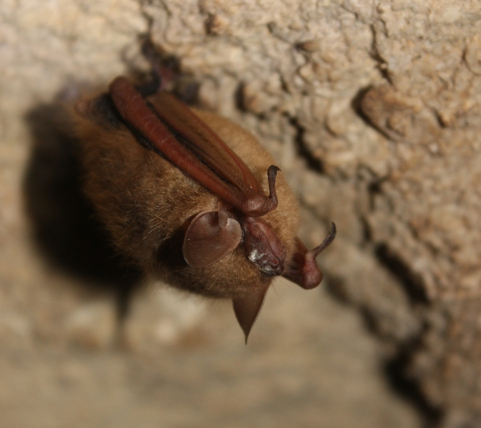 tri-colored bat with WNS Photo credit: MDC/Bruce Schuette